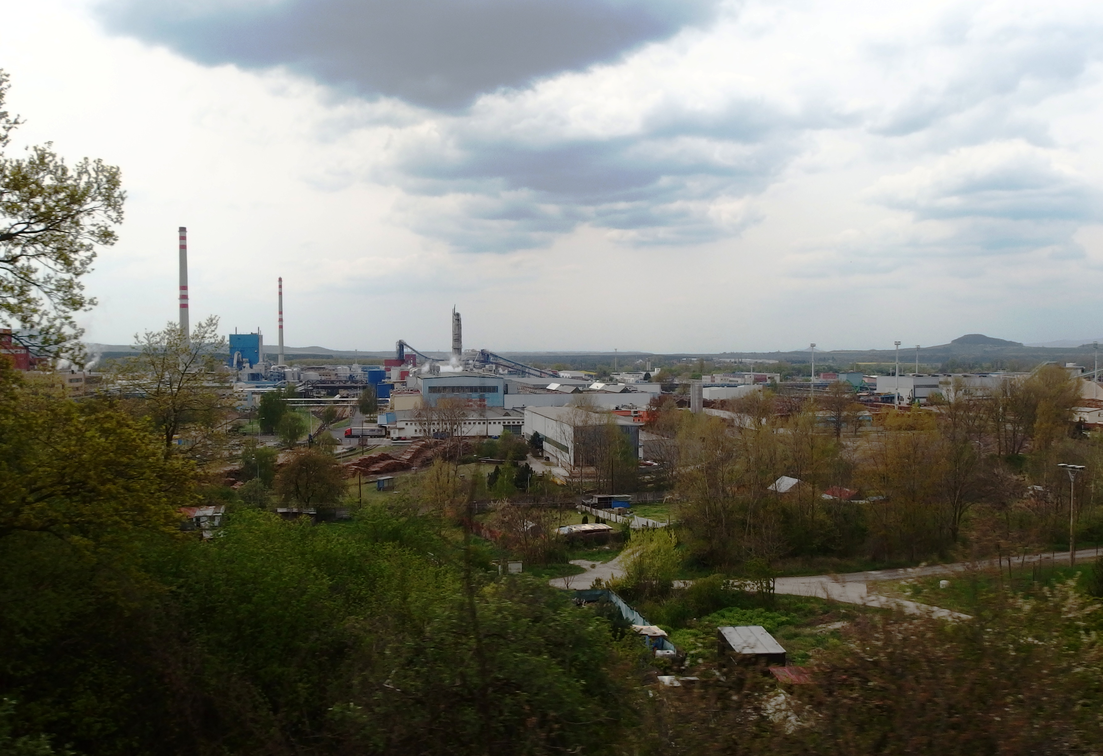 Štětí, Litoměřice District, Czech Republic.